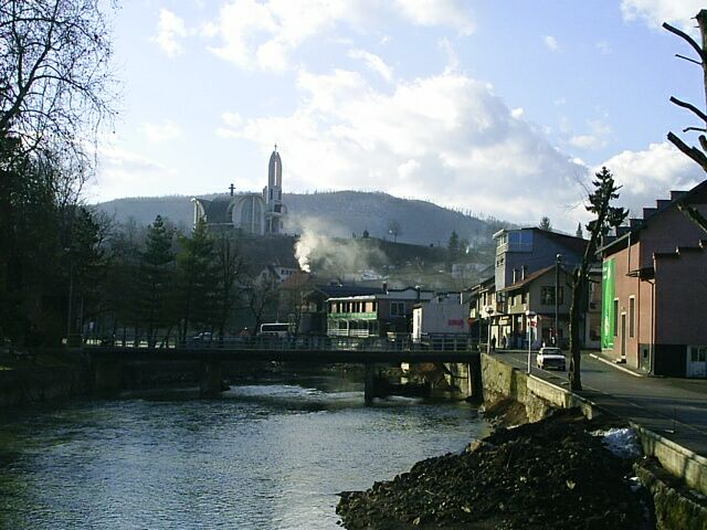 Town of Kiseljak, Bosnia and Herzegovina